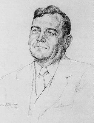 Librarian of Congress Luther Evans